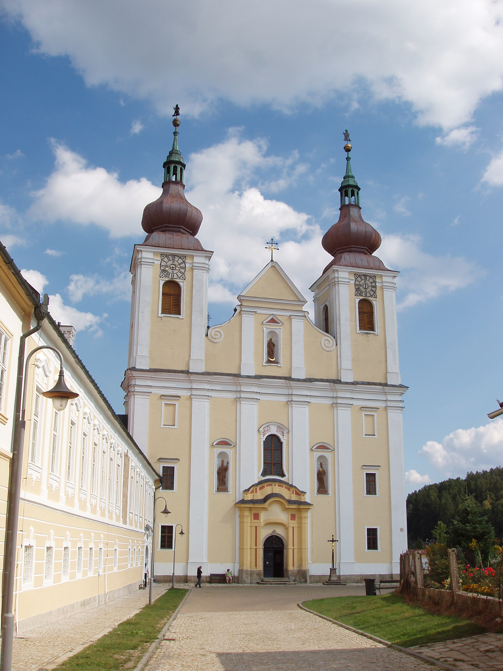 St. Peter and Paul church of the Nová Říše monastery, Czech Republic